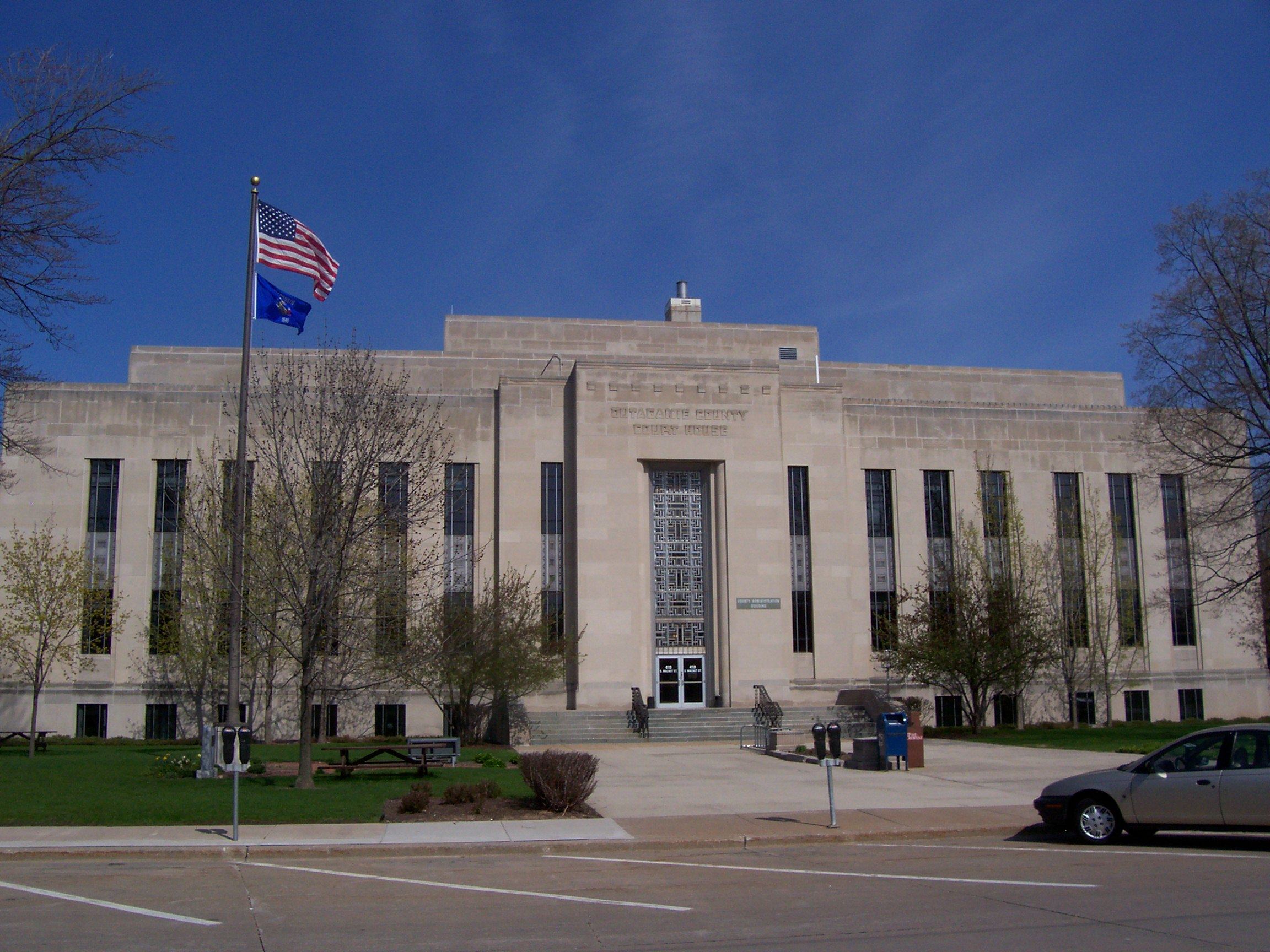 The Outagamie County Courthouse in Appleton, Wisconsin in Outagmaie County, Wisconsin USA